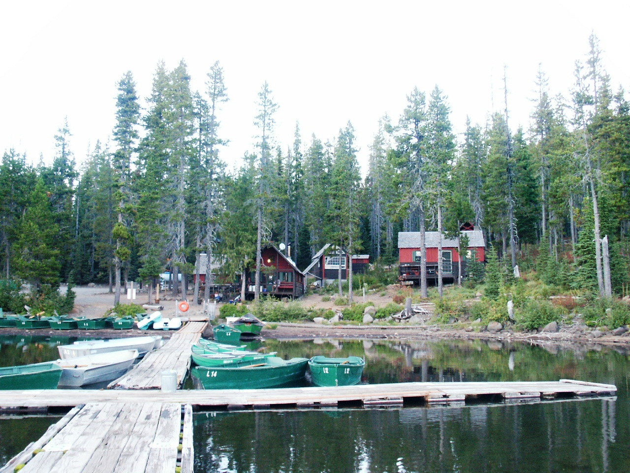 Olallie Lake Resort boat dock in Oregon, USA